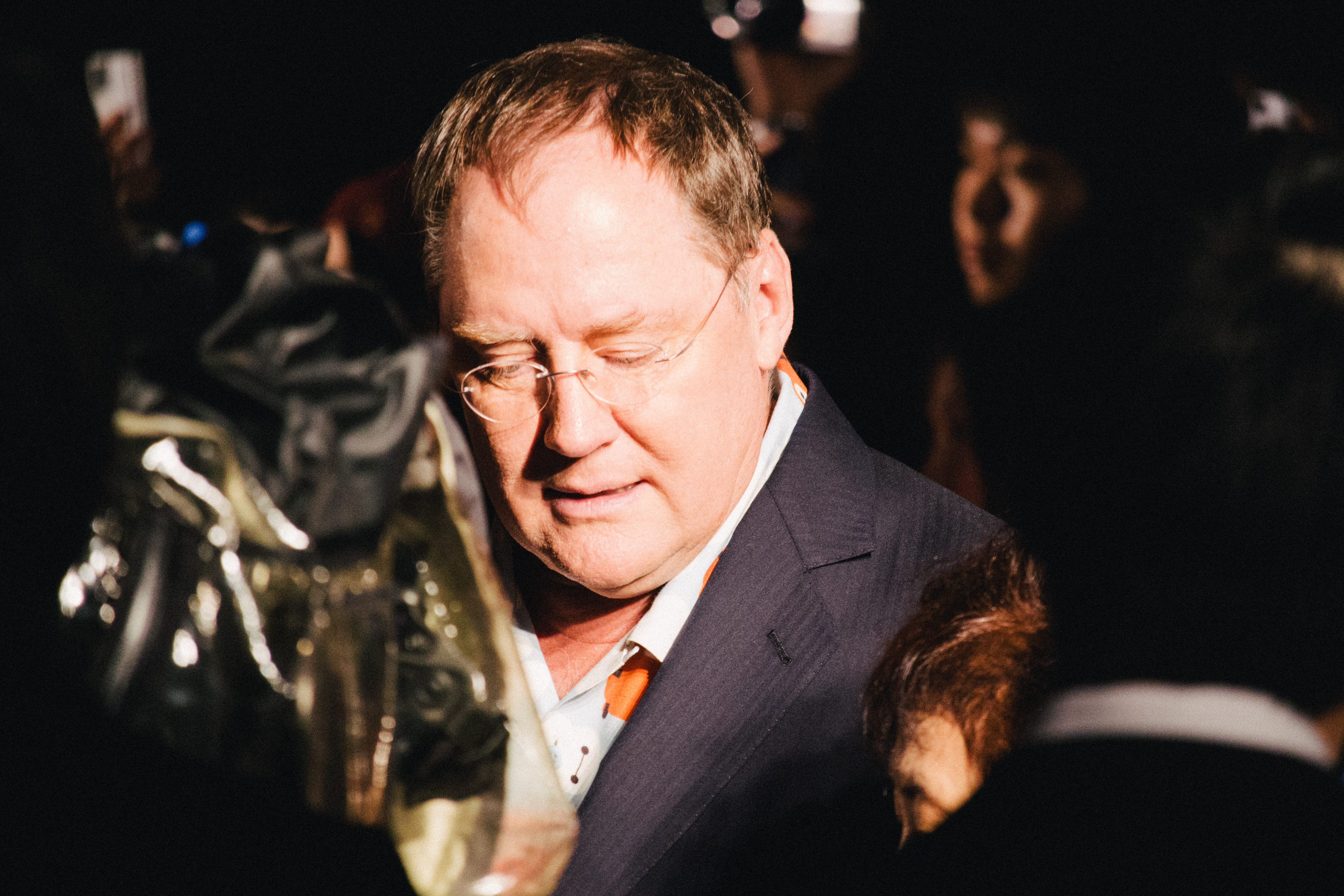 John Lasseter at the Big Hero 6 premiere at the 27th Tokyo International Film Festival